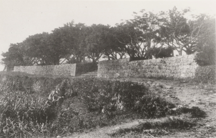 Nanzan Gusuku, Itoman, Okinawa, Japan